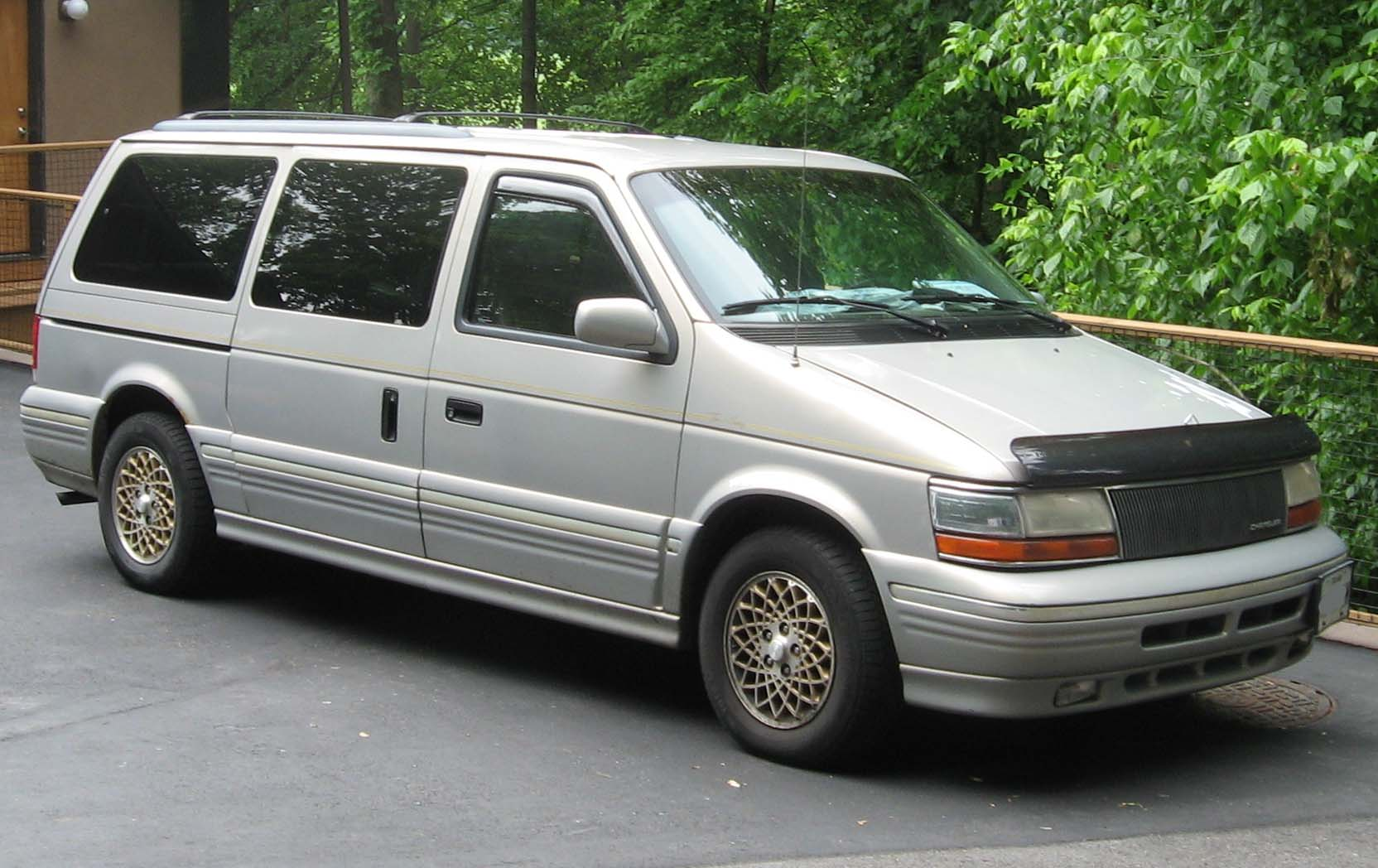 1994-1995 Chrysler Town and Country photographed in USA.